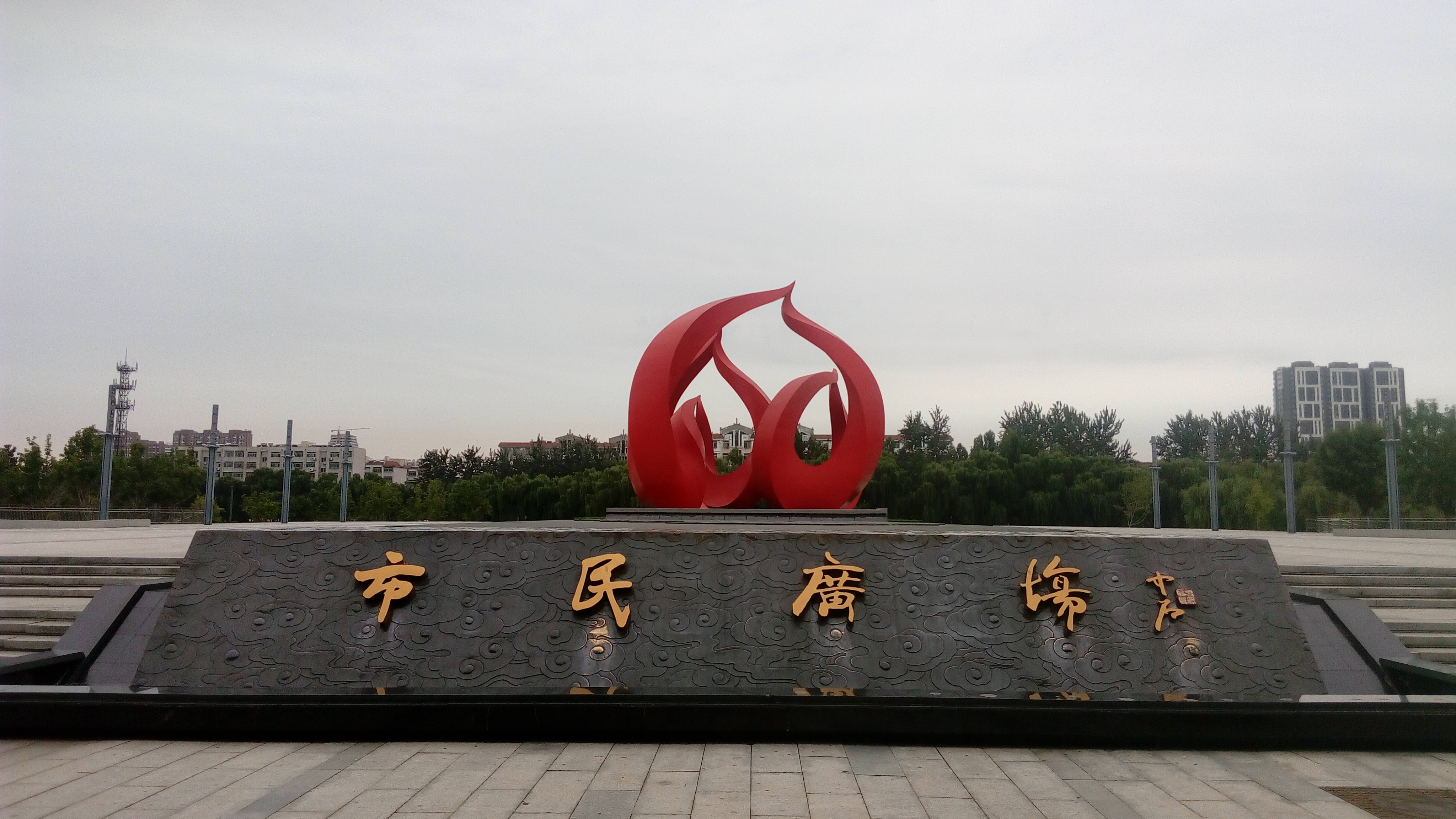 The Civic Square of Feicheng